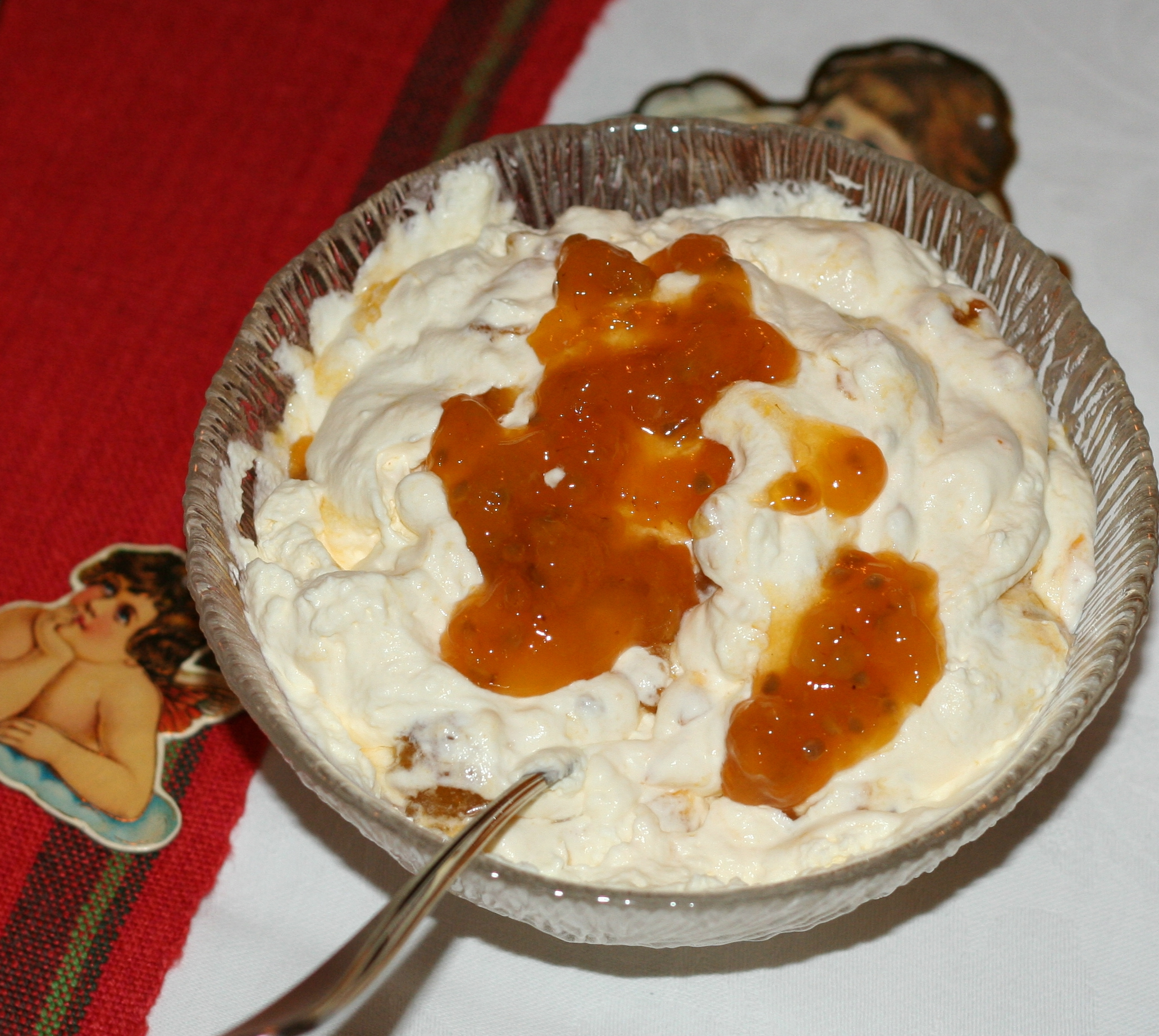 Moltekrem, whipped cream with cloudberries.